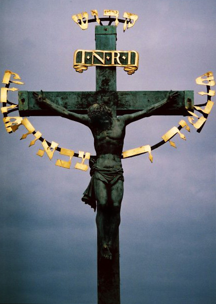 crucifixion of Jesus, statue at Charles Bridge in Prague